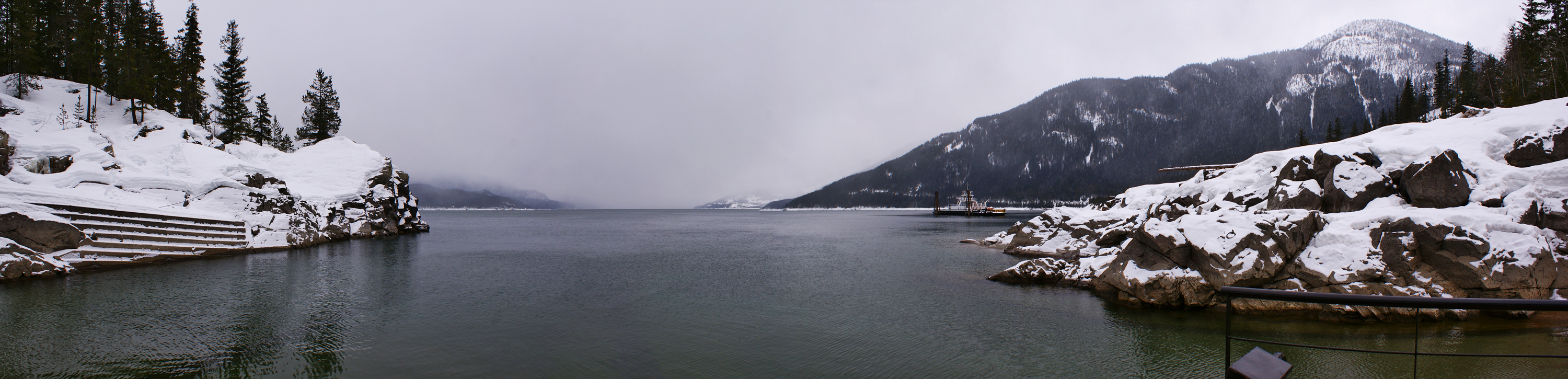 Panorama taken at Shelter Bay, with ferry used in the crossing in the right hand side of the photo. Taken in late February 2011.